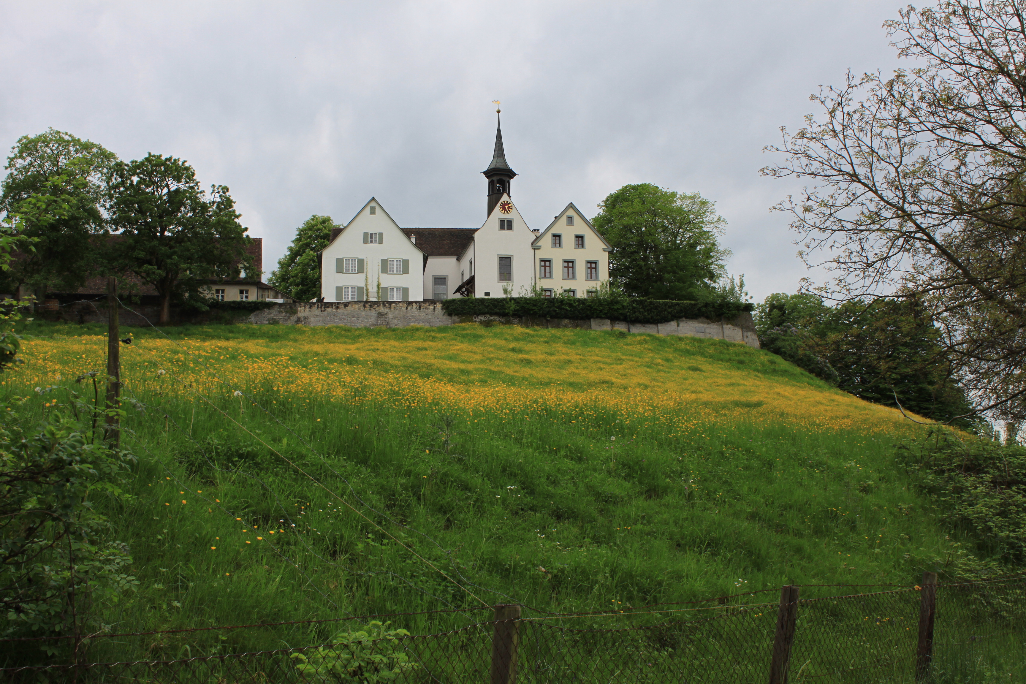 St. Margarethen, Binningen